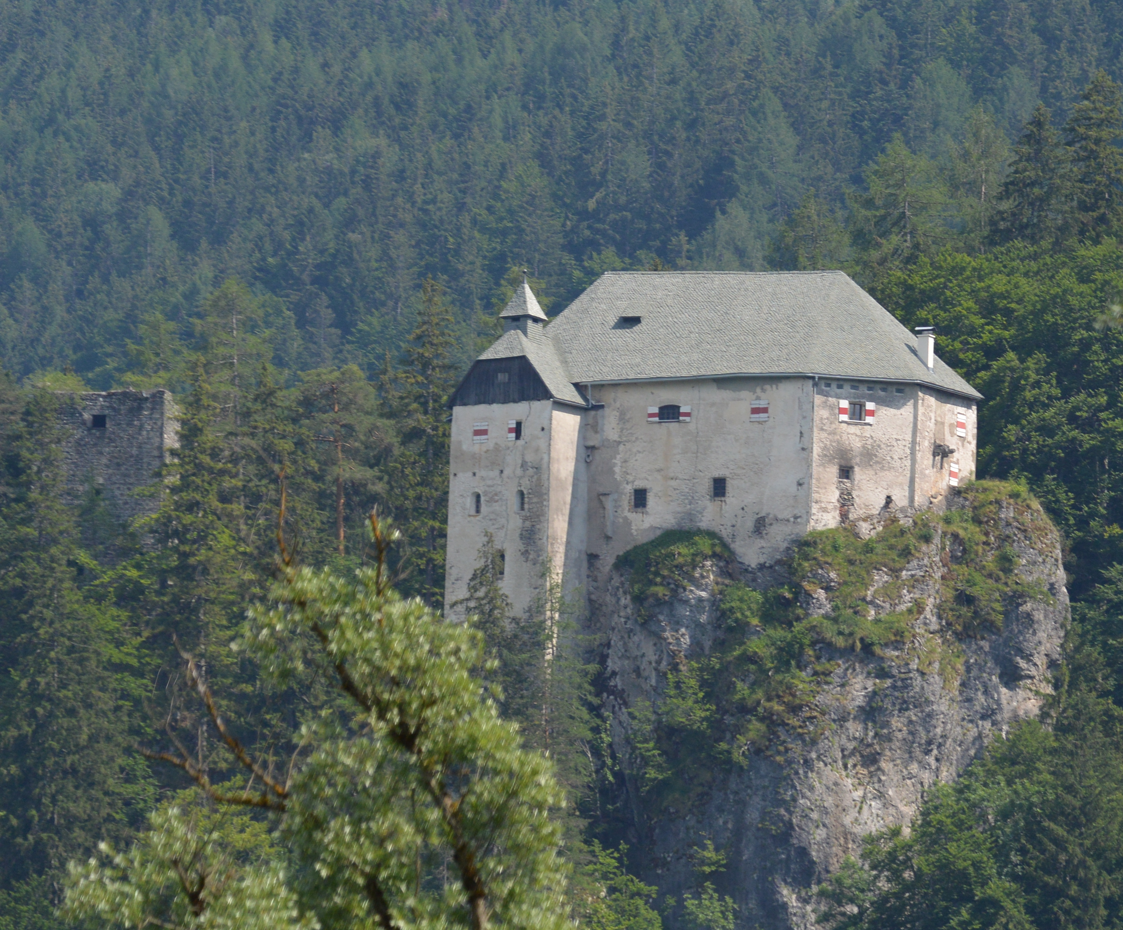 Stein castle in the community of Dellach im Drautal